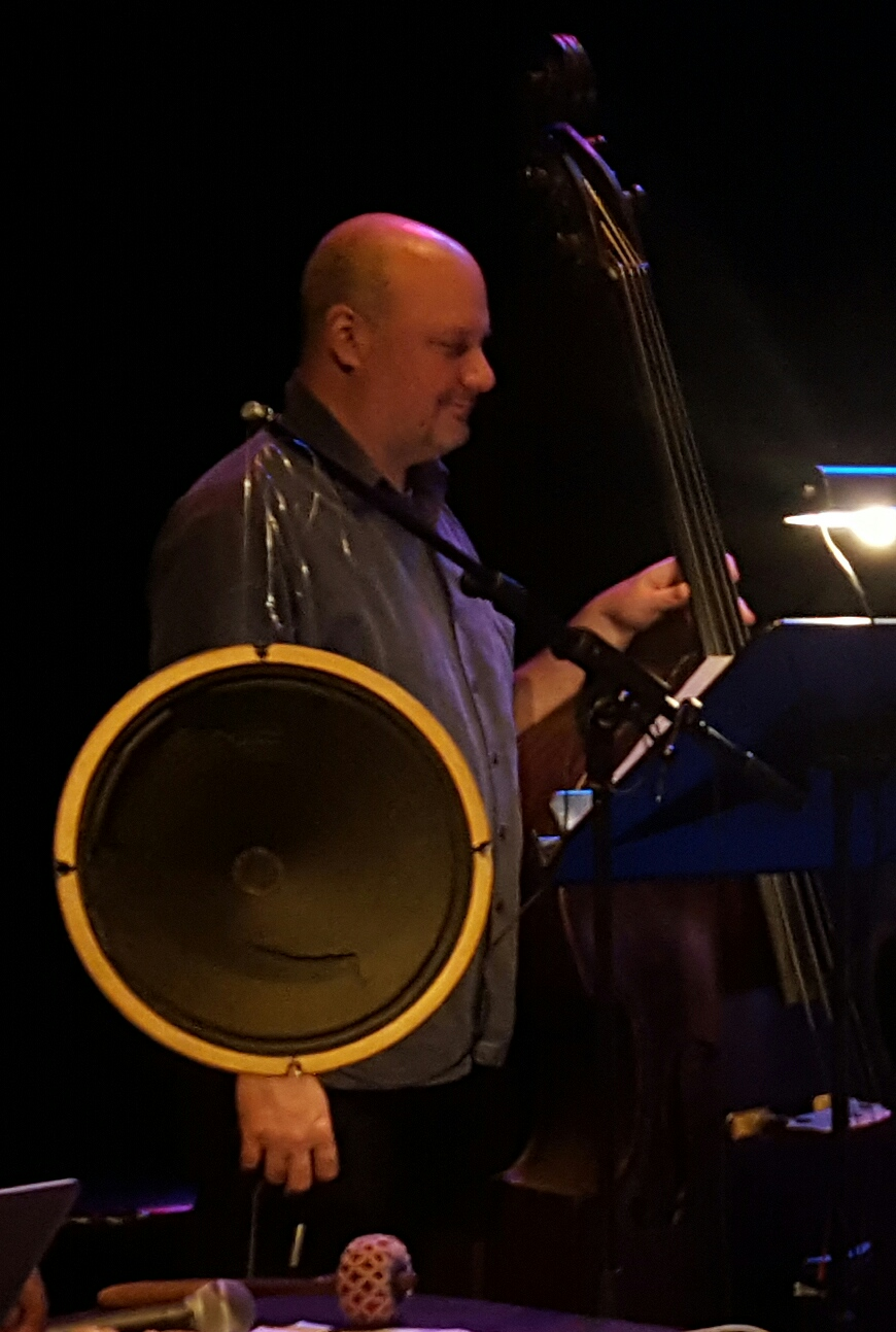 Sandeep Bhagwati photographed in Montreal, Quebec, Canada inside the Montréal-Nord Cultural Centre.